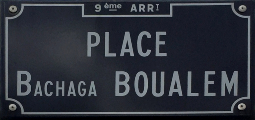 This photograph was taken with an iPhone 6